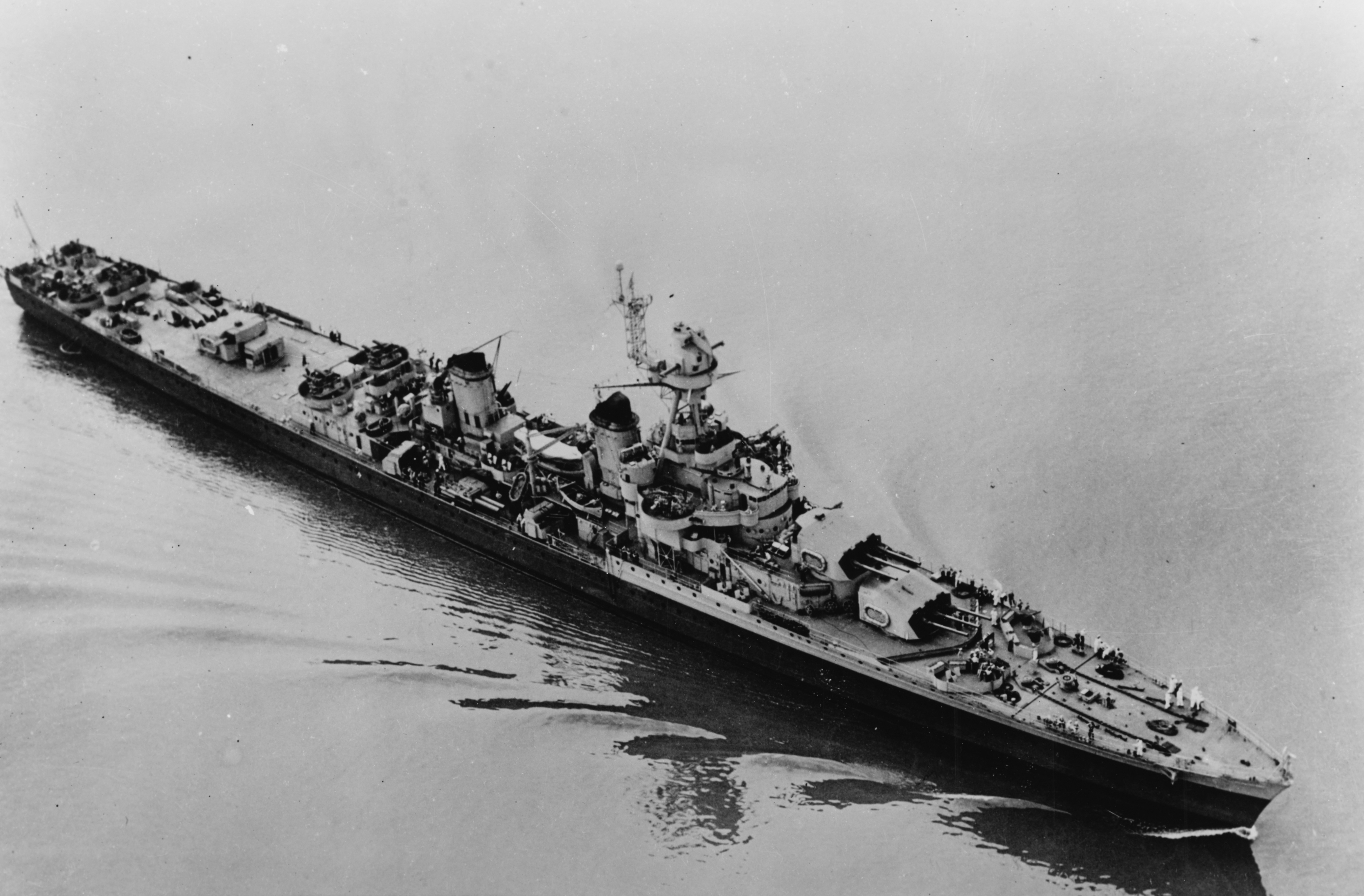 Title: Montcalm (French cruiser, 1935) Caption: Off the Philadelphia Navy Yard, Pennsylvania, 26 July 1943. She had just finished a refit at that Yard. Catalog #: 19-N-48998 Copyright Owner: National Archives Original Date: Mon, Jul 26, 1943